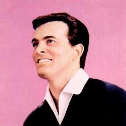 Trade ad for Ronnie Dove's single "One More Mountain to Climb".To better adapt it to his respective Wikipedia article, the ad was cropped and cleaned in a graphics editing program. The original can be viewed at the source below.